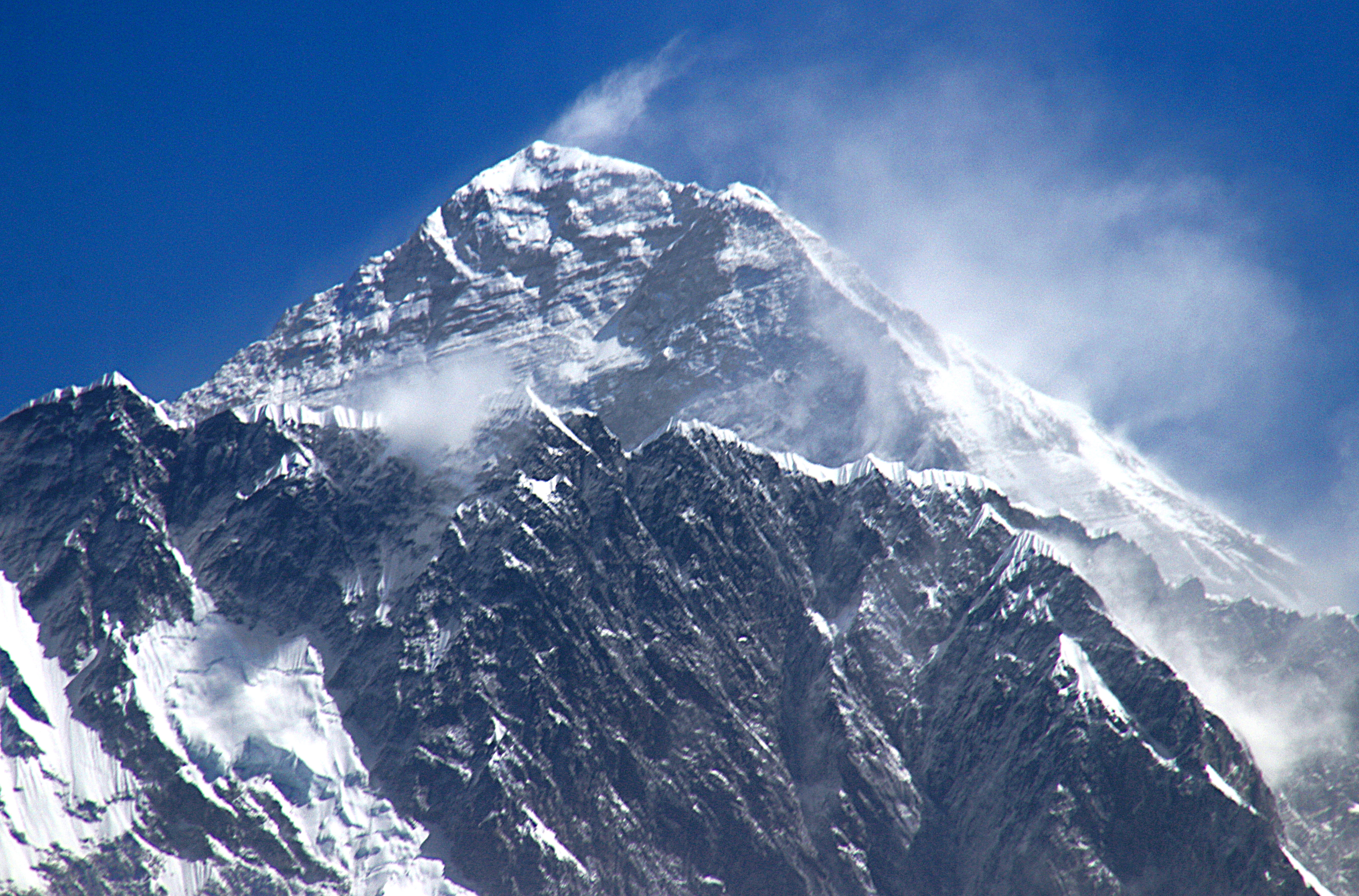 Namche Bazaar. Mount Everest seen from Syangboche Panorama Hotel.